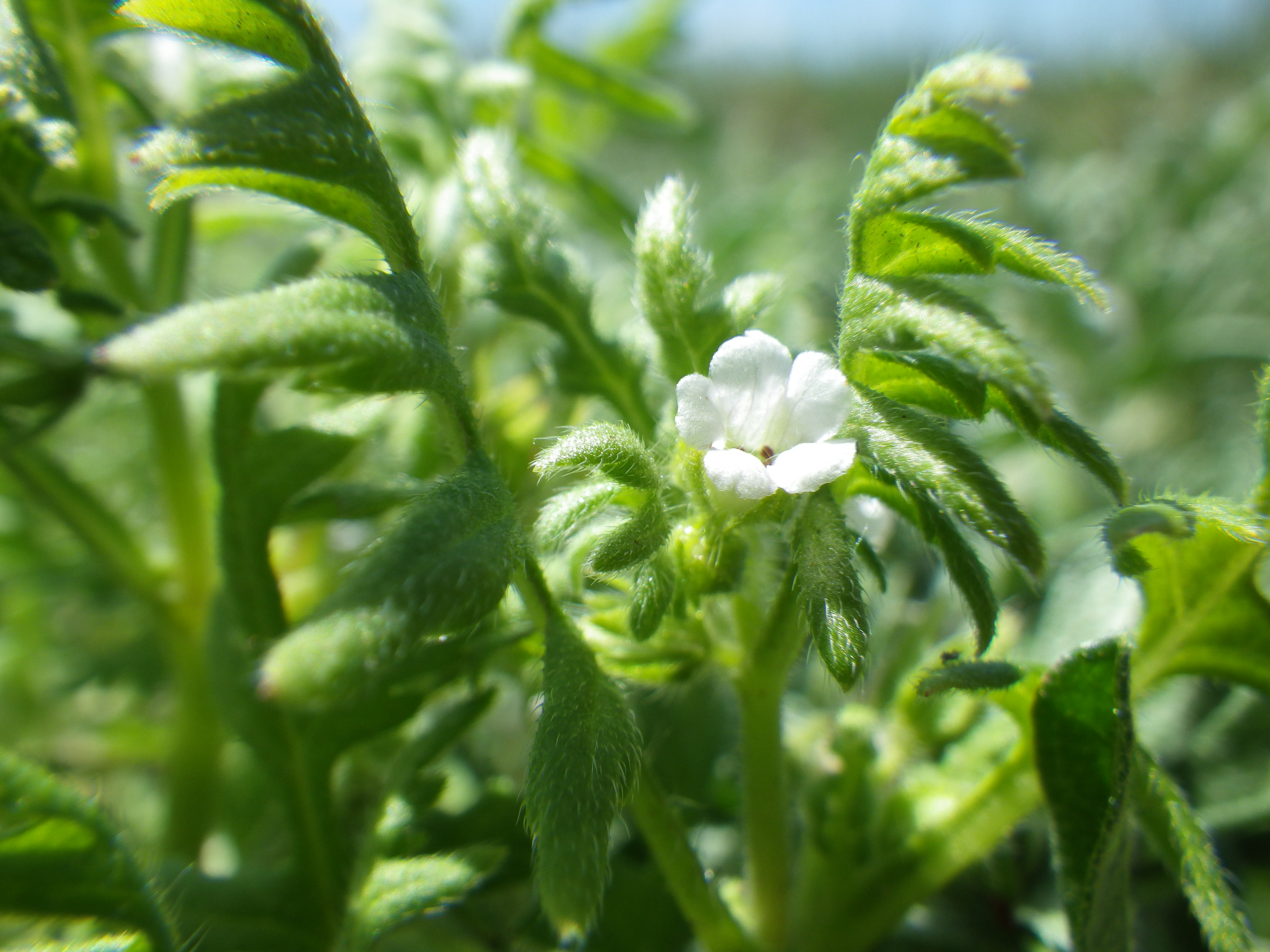 Ellisia was observed only on prairie dog towns in this region of the CMR Refuge and vicinity.